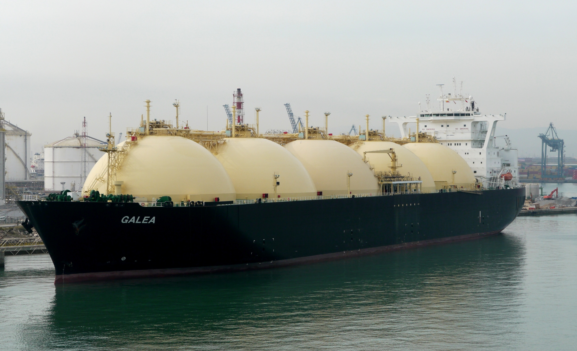 LNG Carrier Galea - IMO: 9236614 - Singapore, seen at Barcelone